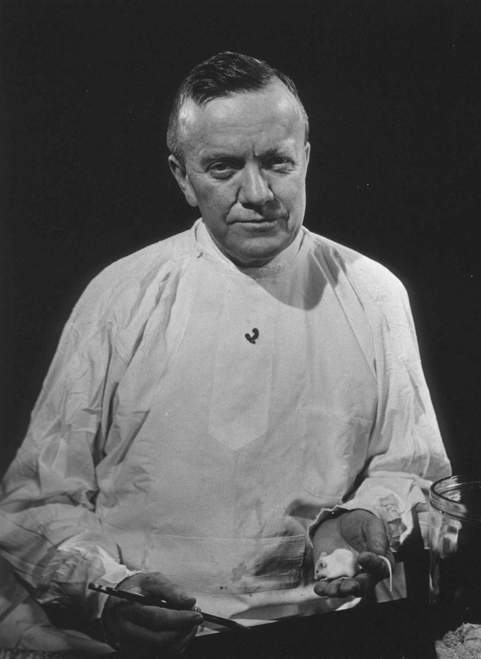 Charles Armstrong (1886 – 1967), American virologist in his laboratory.